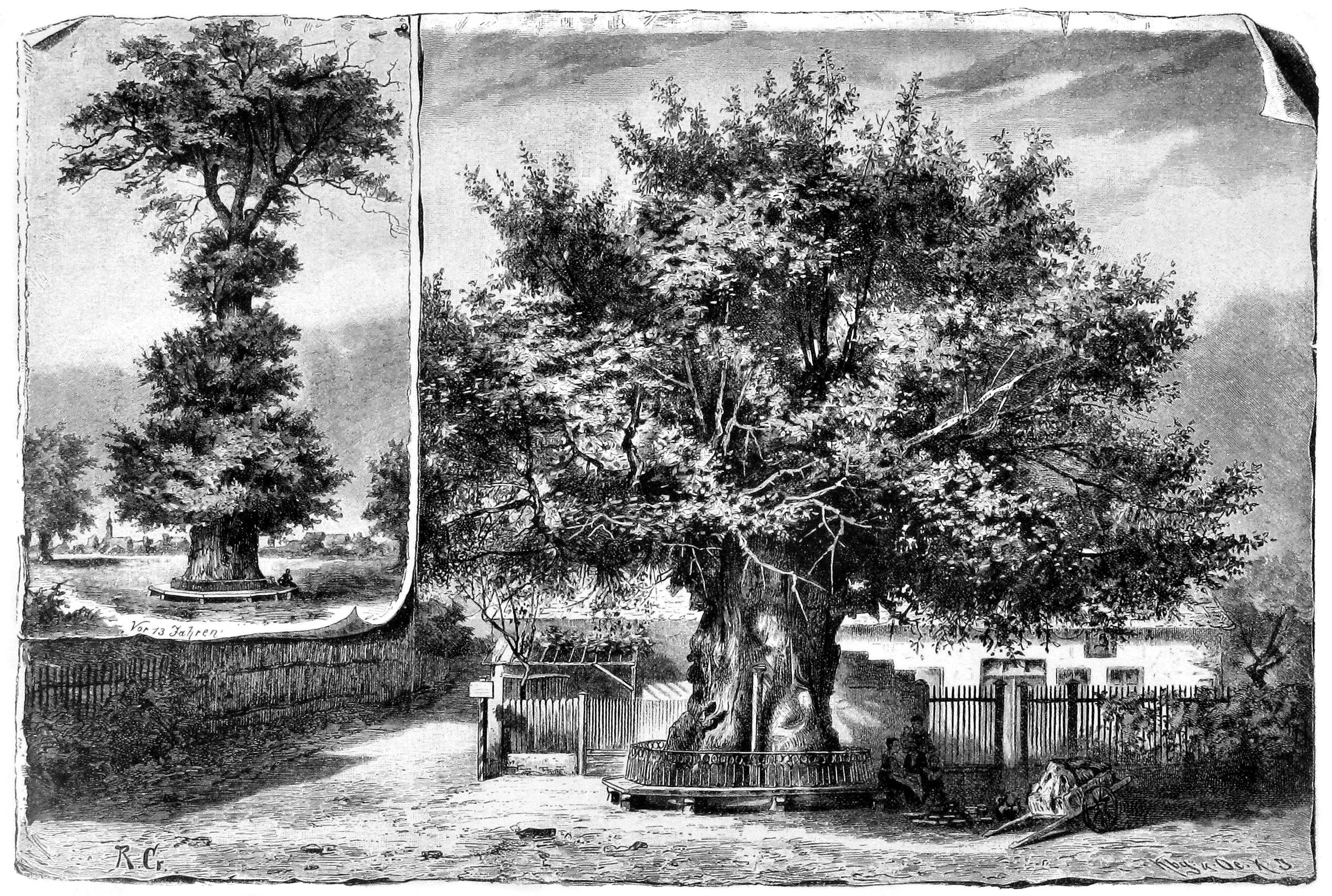 caption: "Die Luther-Ulme bei Worms. Nach einer Photographie gezeichnet von Rudolf Cronau."